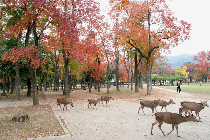 Image of Chinese Tallow Triadica sebifera (Syn. Sapium sebiferum), in Japan. 840×560 (250,385 bytes) (Image I took of free roaming deer in a park close to the Great Buddha temple, Todai-j, in Nara town, south east of Kyoto, Japan. I have copyright, but release for use on here and the Internet. The deer are very tame, and quite cheeky begging for food.)